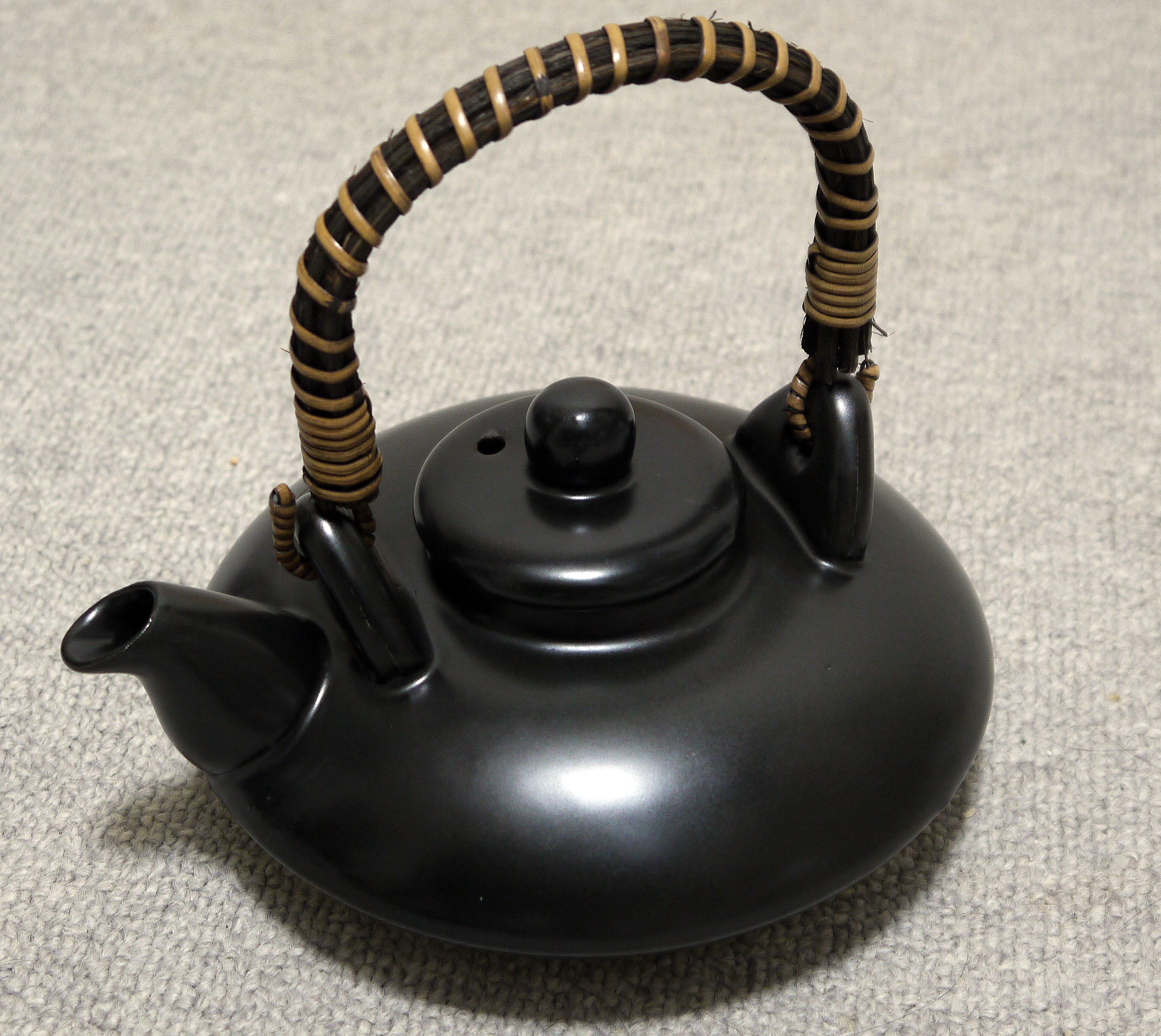 Japanese Joka